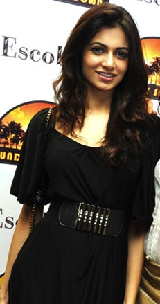 Simran Mundi at Escobar's Sundown Launch Mumbai